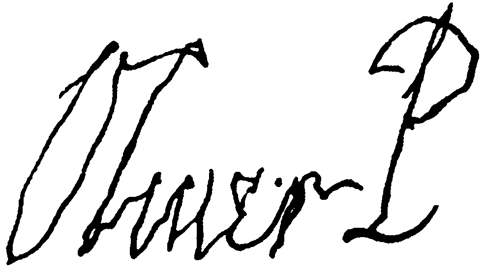 Signature of Oliver Cromwell, circa August 1657.